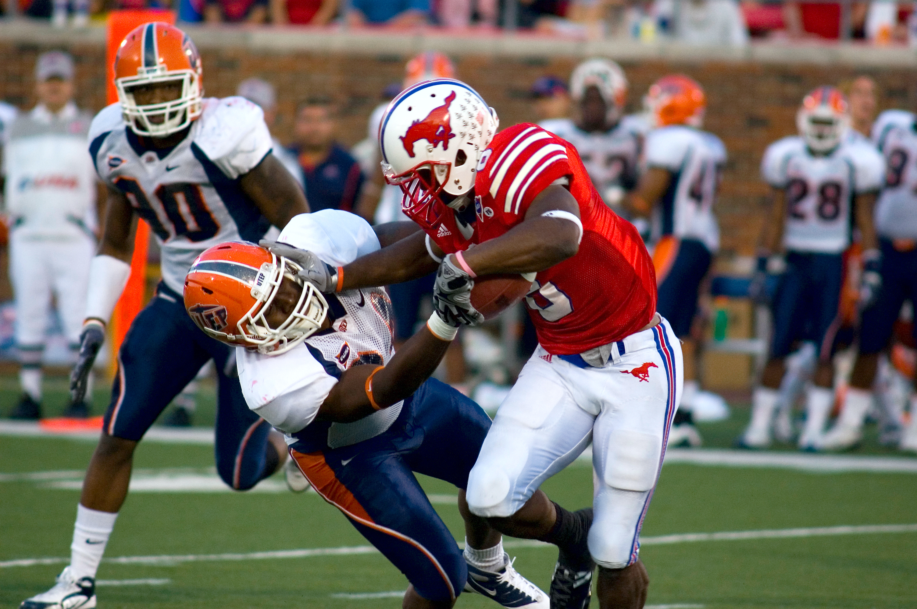 8 RB Shawnbrey McNeal wards off a UTEP defender